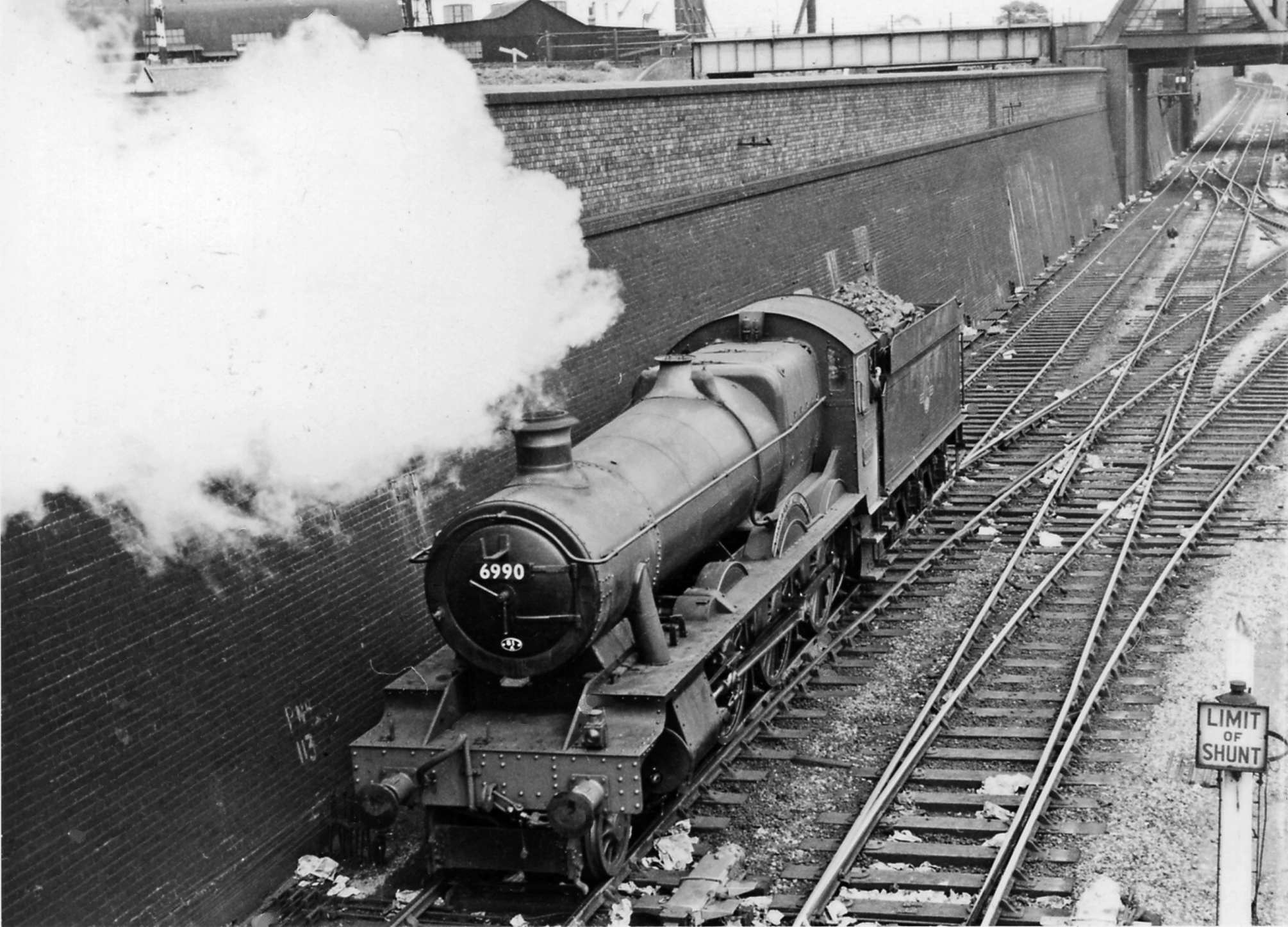 Express locomotive backing out of Old Oak Common Depot to take up a train at Paddington. View eastward from the footbridge at Old Oak Common East Junction: ex-GWR main lines from Paddington. The West London Line, coming up from Kensington Olympia, Clapham Junction etc. to Willesden Junction etc. (left), is seen crossing above at Mitre Bridge Junction. The locomotive is Hawksworth 'Modified Hall' 4-6-0 No. 6990 'Witherslack Hall' (built 4/48, withdrawn 12/65 - and preserved on the heritage Great Central Railway). (See other scenes at this spot: a train-watcher's paradise, where you could also immerse yourself in the smoke!).